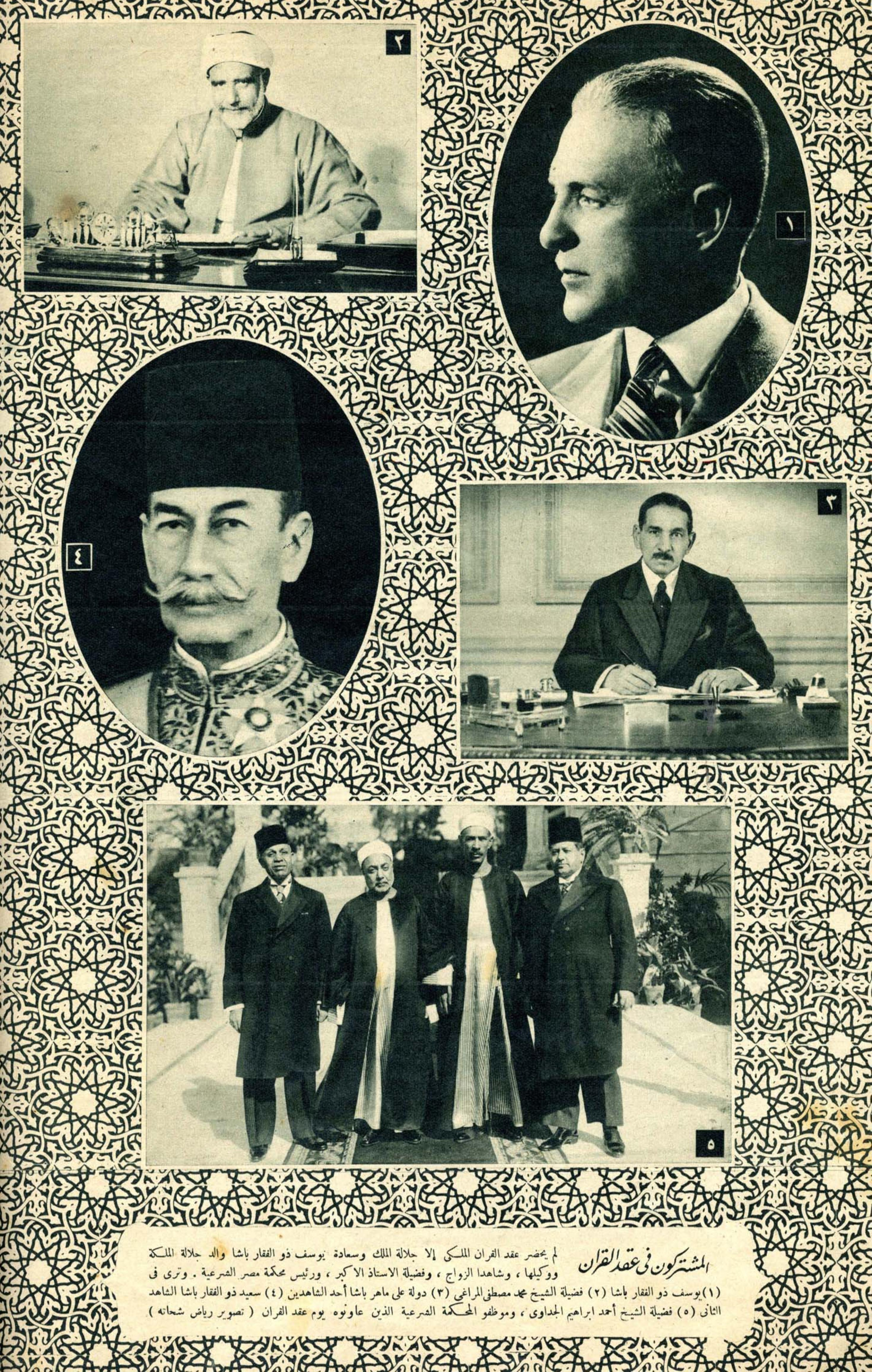 A page from a 1939 issue of Al-Musawwar magazine showing the people who took part in the signing of the Islamic marriage contract between King Farouk I and Queen Farida of Egypt. The five photographs are those of: Youssef Zulficar Pasha (upper right), the father and legal representative of the bride (Queen Farida); Sheikh Mustafa al-Maraghi (upper left), rector of Al-Azhar University; Ali Maher Pasha (middle, right), the first witness; Sa'id Zulficar Pasha (middle, left), the second witness; Sheikh Ahmad Ibrahim El Gedawy and other employees of the Sharia Court who assisted him during the wedding (bottom).